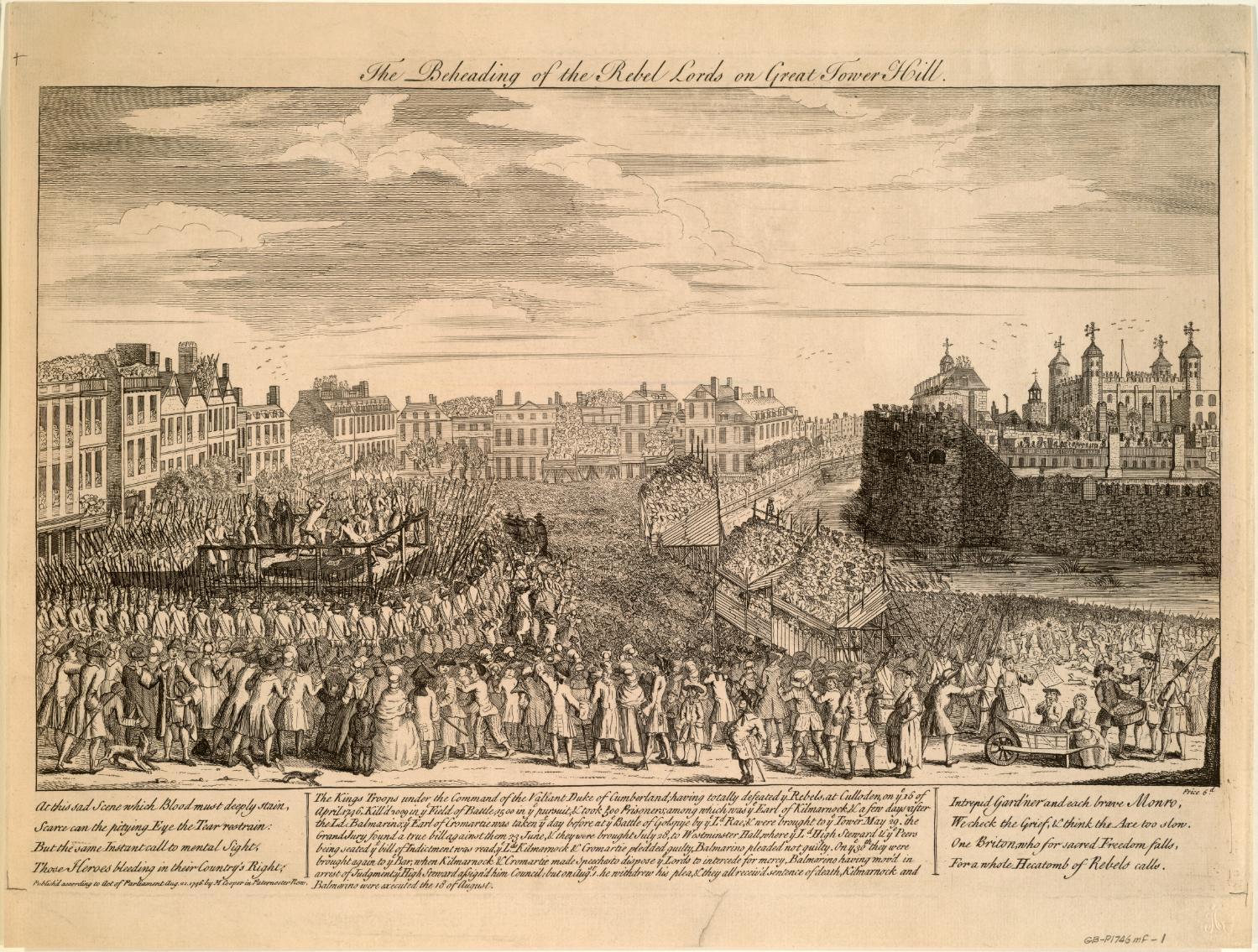 This is an engraving of the execution of rebels following the Jacobite rebellion in 1745-1746. The prisoners on the scaffold are surrounded by soldiers, and by large crowds on foot and in grandstands.